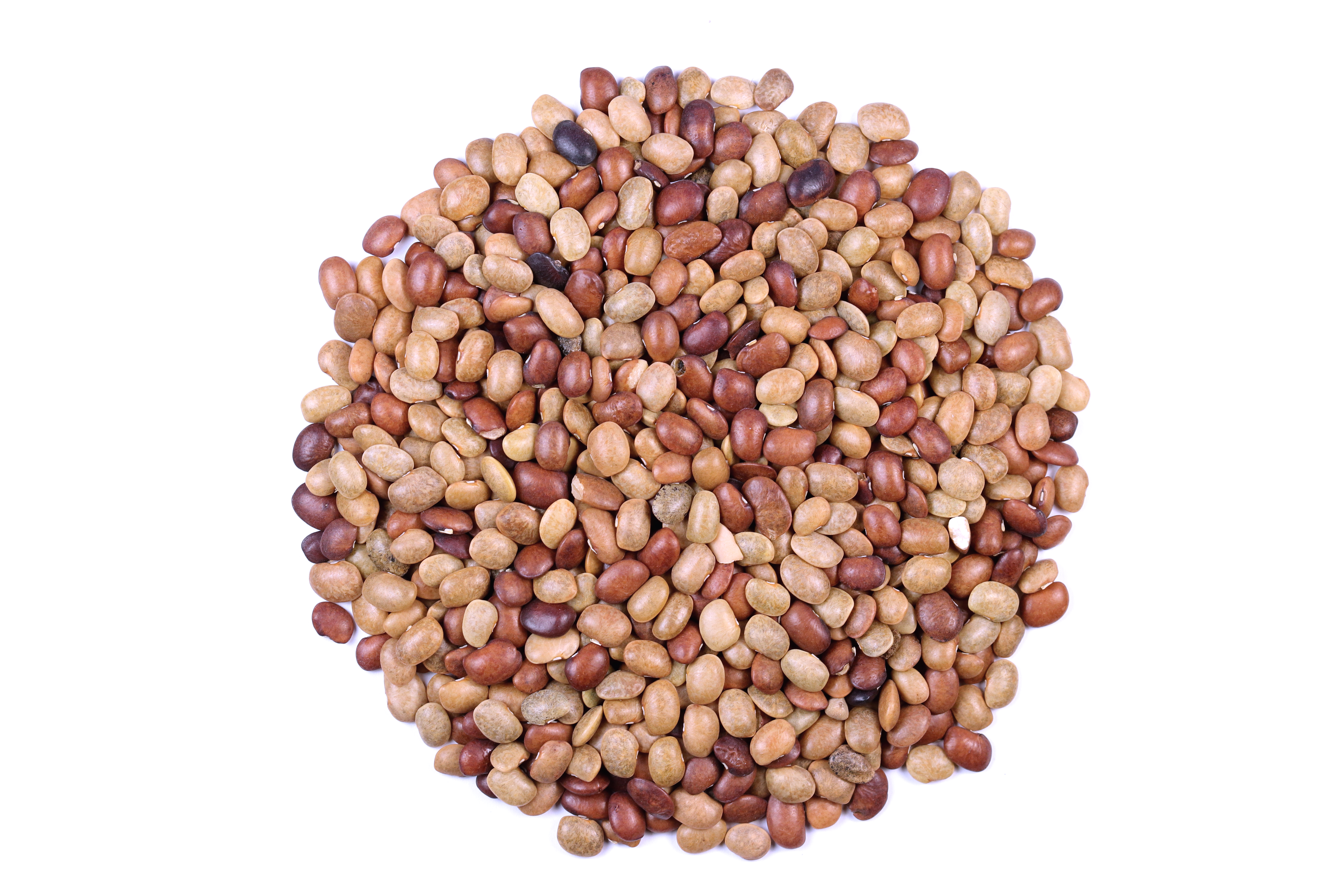 Seeds of the Horse Gram (Macrotyloma Uniflorum) bean. Size of bean is about 6mm.